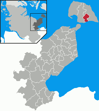 This map shows the area of the former Stadt (town) Burg auf Fehmarn in the Kreis (district) Ostholstein, Schleswig-Holstein, Germany.